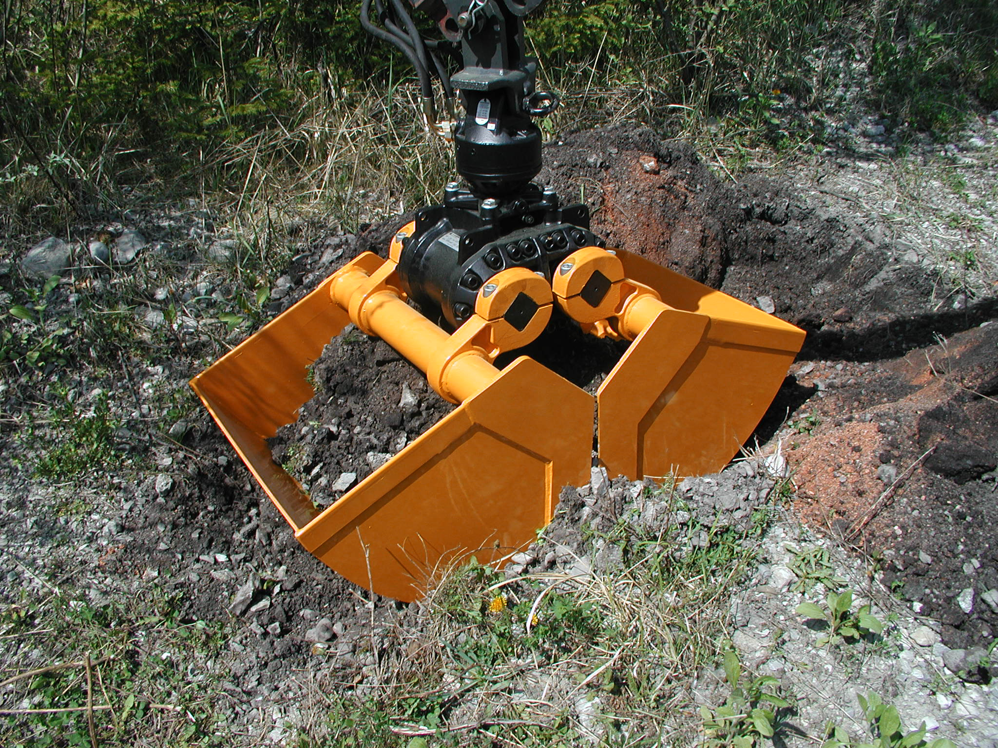 Action picture of cylinderless grapple drive unit HPXdrive mounted on a clamshell bucket by Kinshofer GmbH, Germany, digging soil